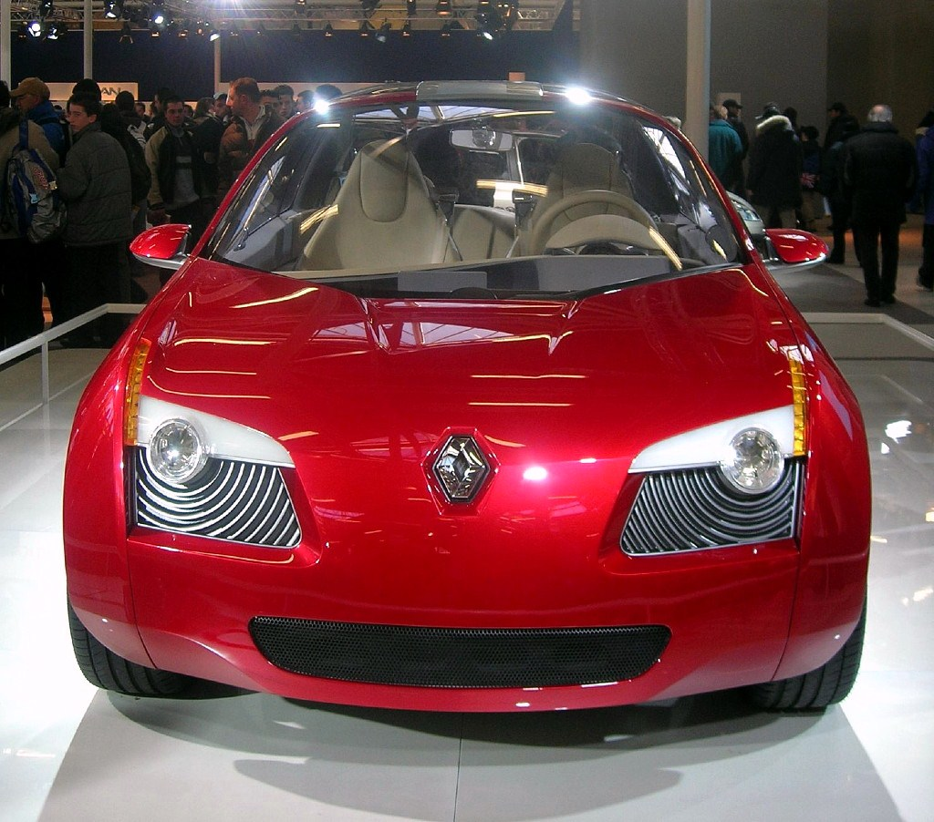 Front of the Zoé.